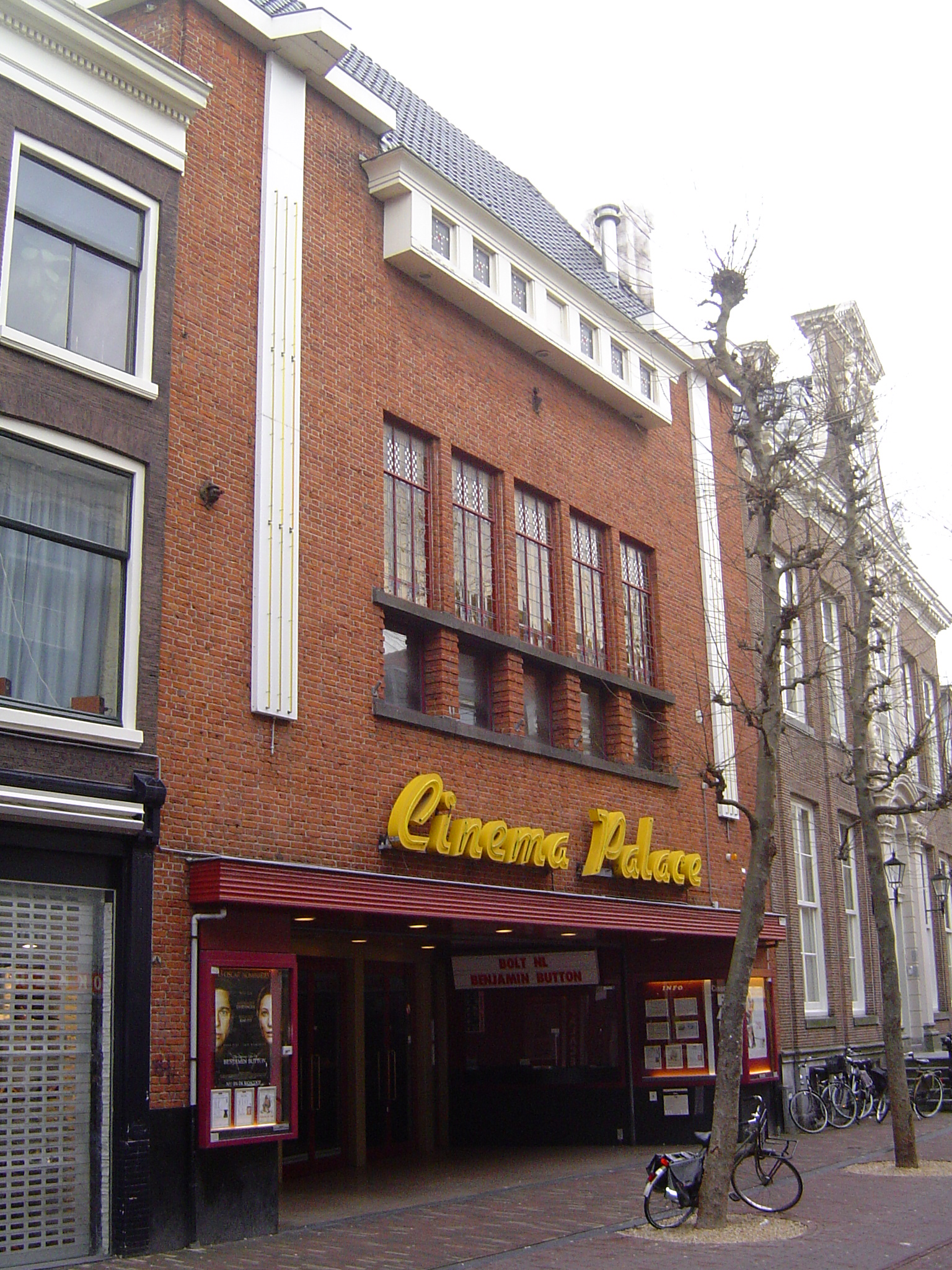 Cinema Palace - Grote Houtstraat, Haarlem, The Netherlands. The house on the right is 'Het Huis met de trappen, a Rijksmonument, also known as the clubhouse for the Haarlem society Trou Moet Blijcken.